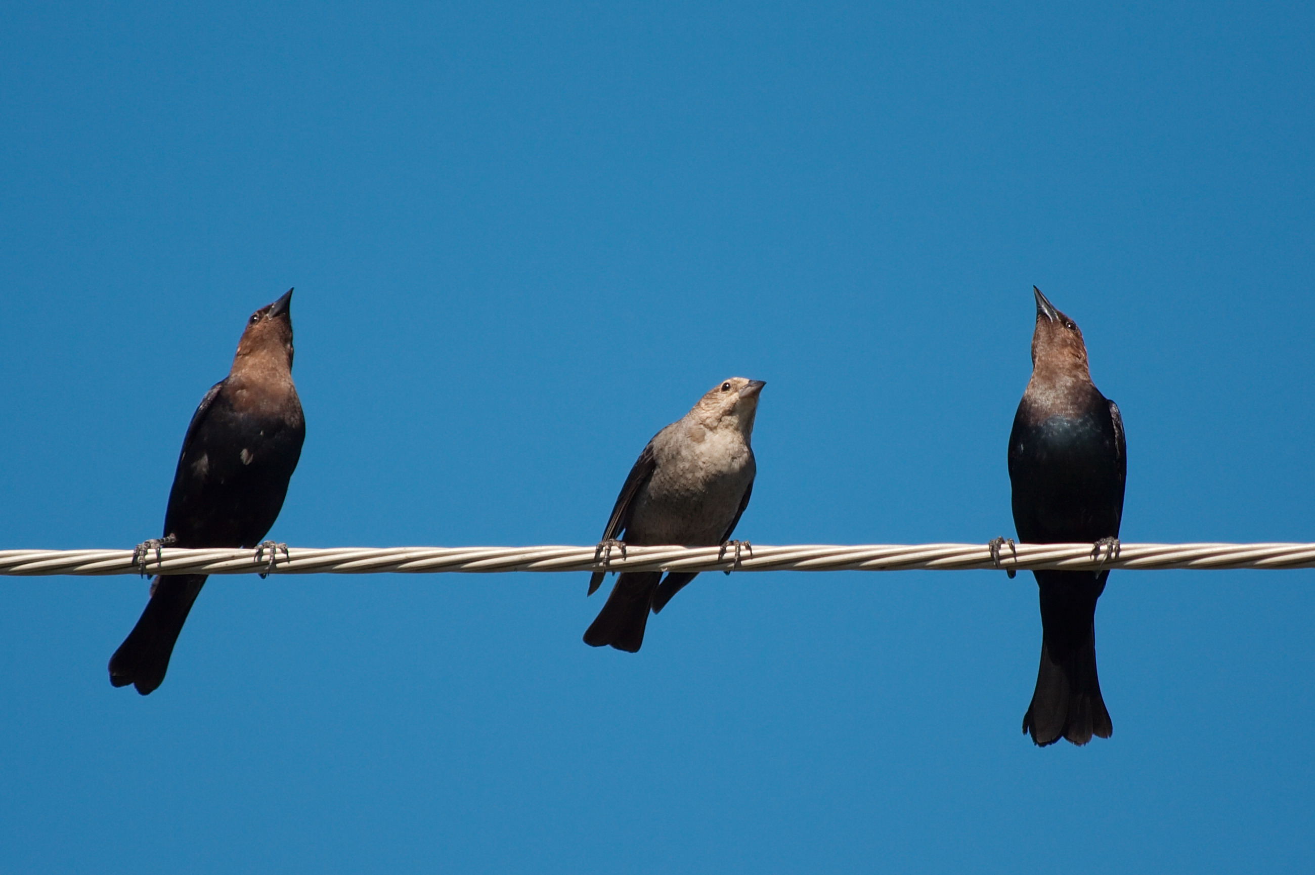 Brown-headed cowbirds (Molothrus ater), taken in Urbana, Illinois